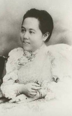 King Rama V and his wife Queen Saovabha